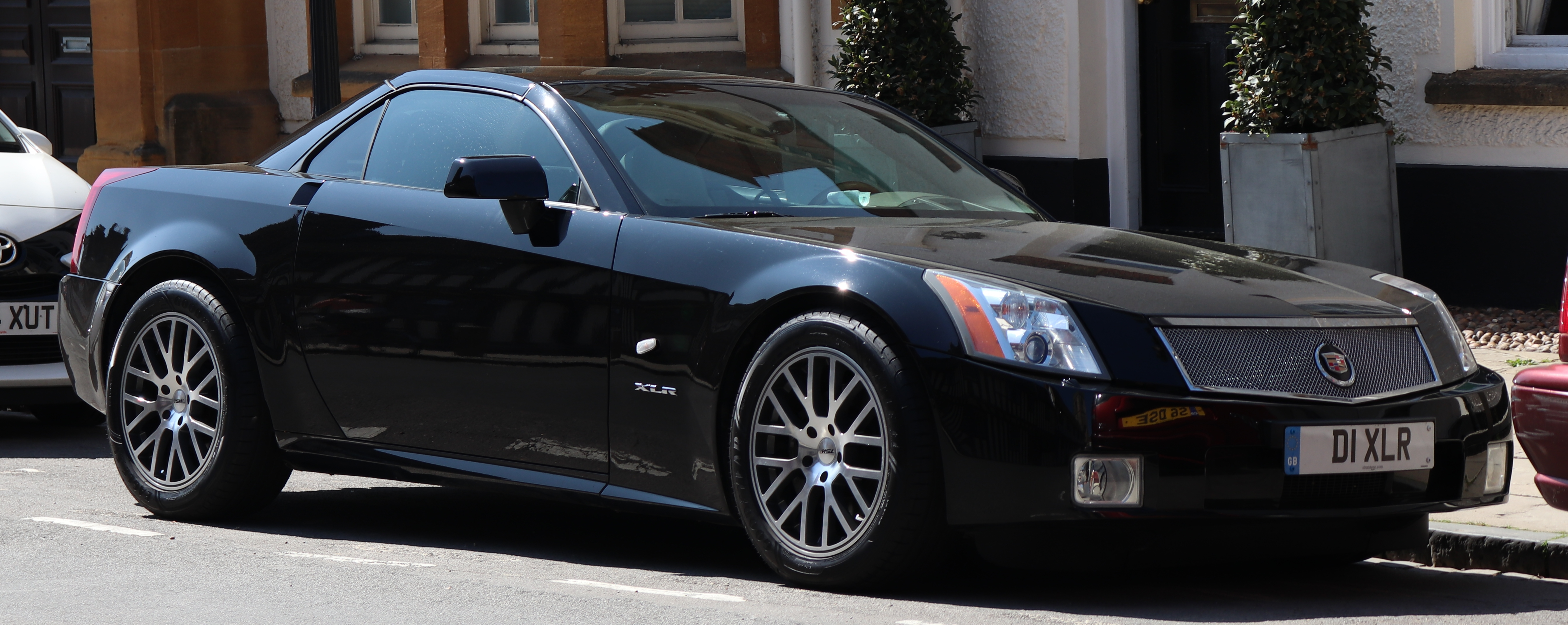 2005 Cadillac XLR 4.6 Taken in Stratford-upon-Avon